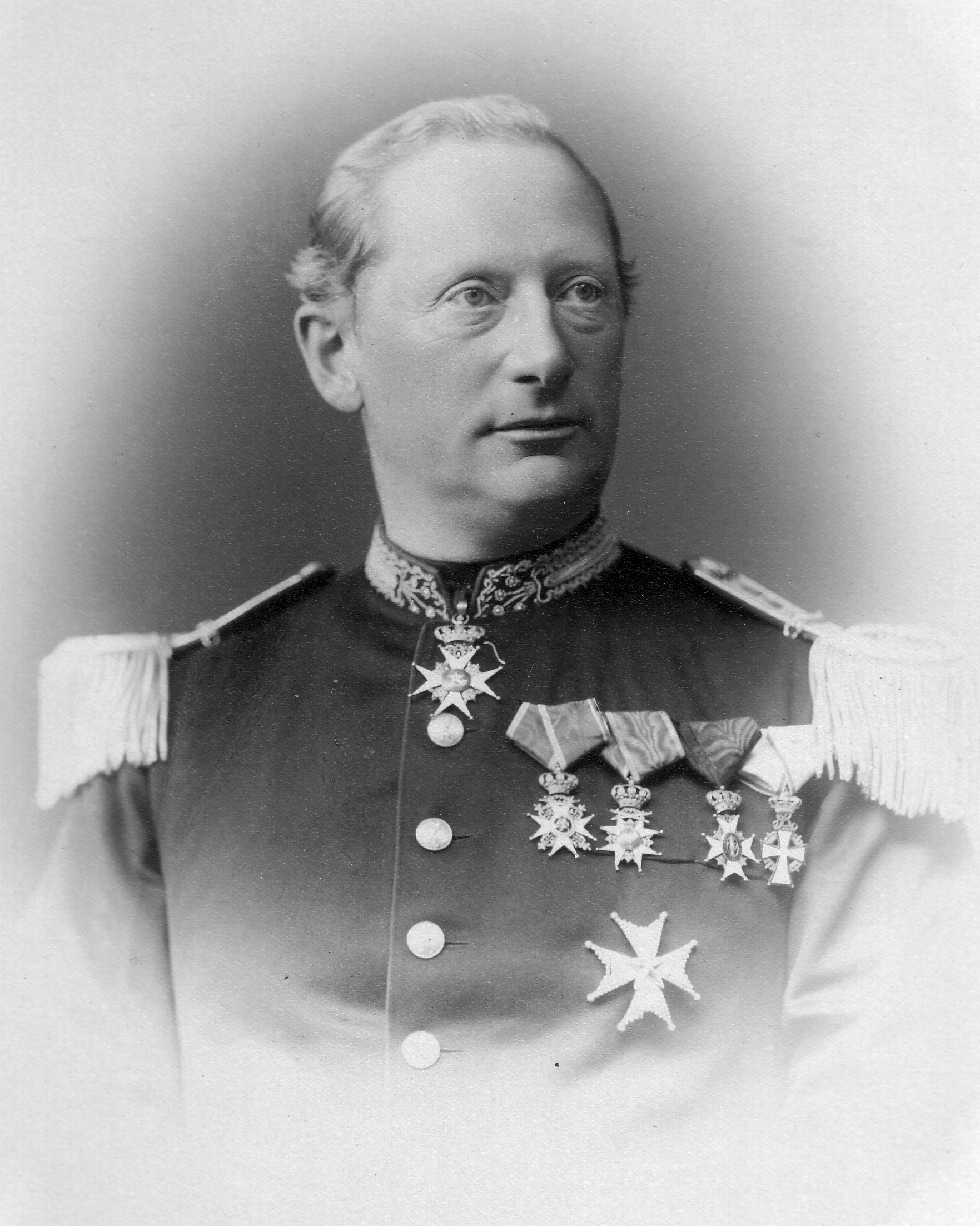 Portrait of Theodor Christian Brun Frølich (1834-1904), Norwegian army officer and Lord Chamberlain.